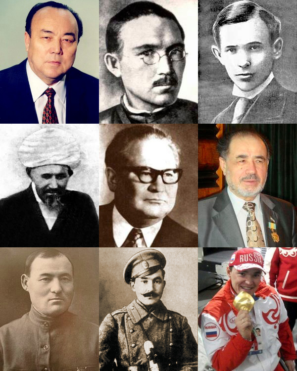 Notable Bashkir people